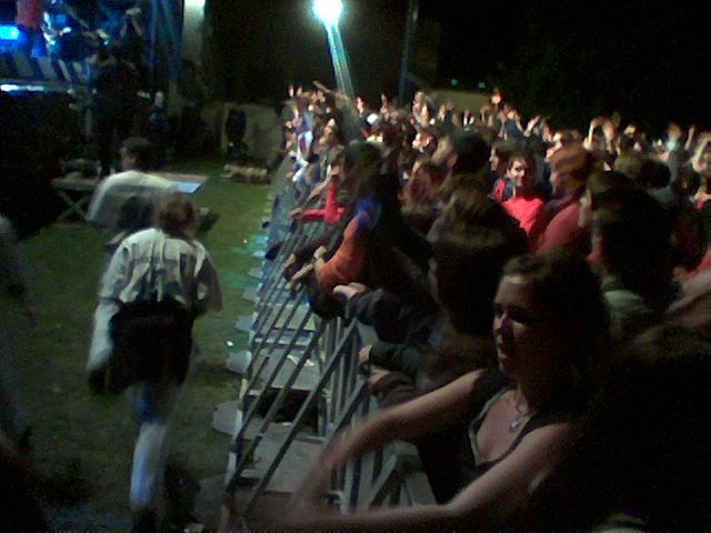 stage of a rock concert : between the stage and the public, space is kept free for cameramen, security and paramedical responders